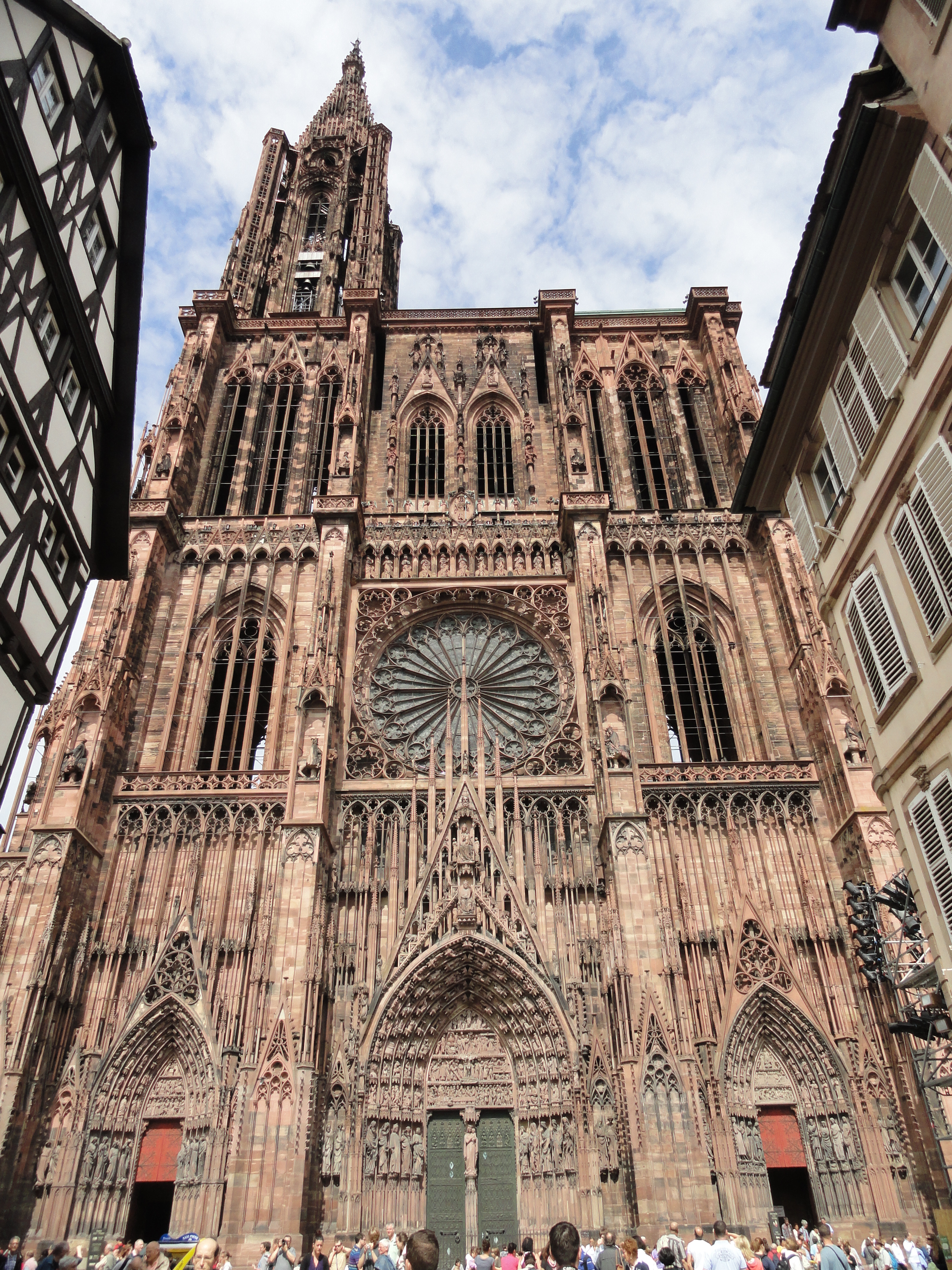 strasbourg_cathedrale_3